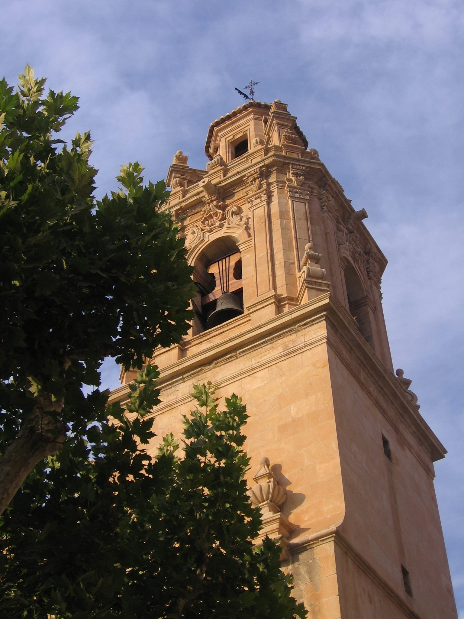 Campanario de la Basilica de Aspe